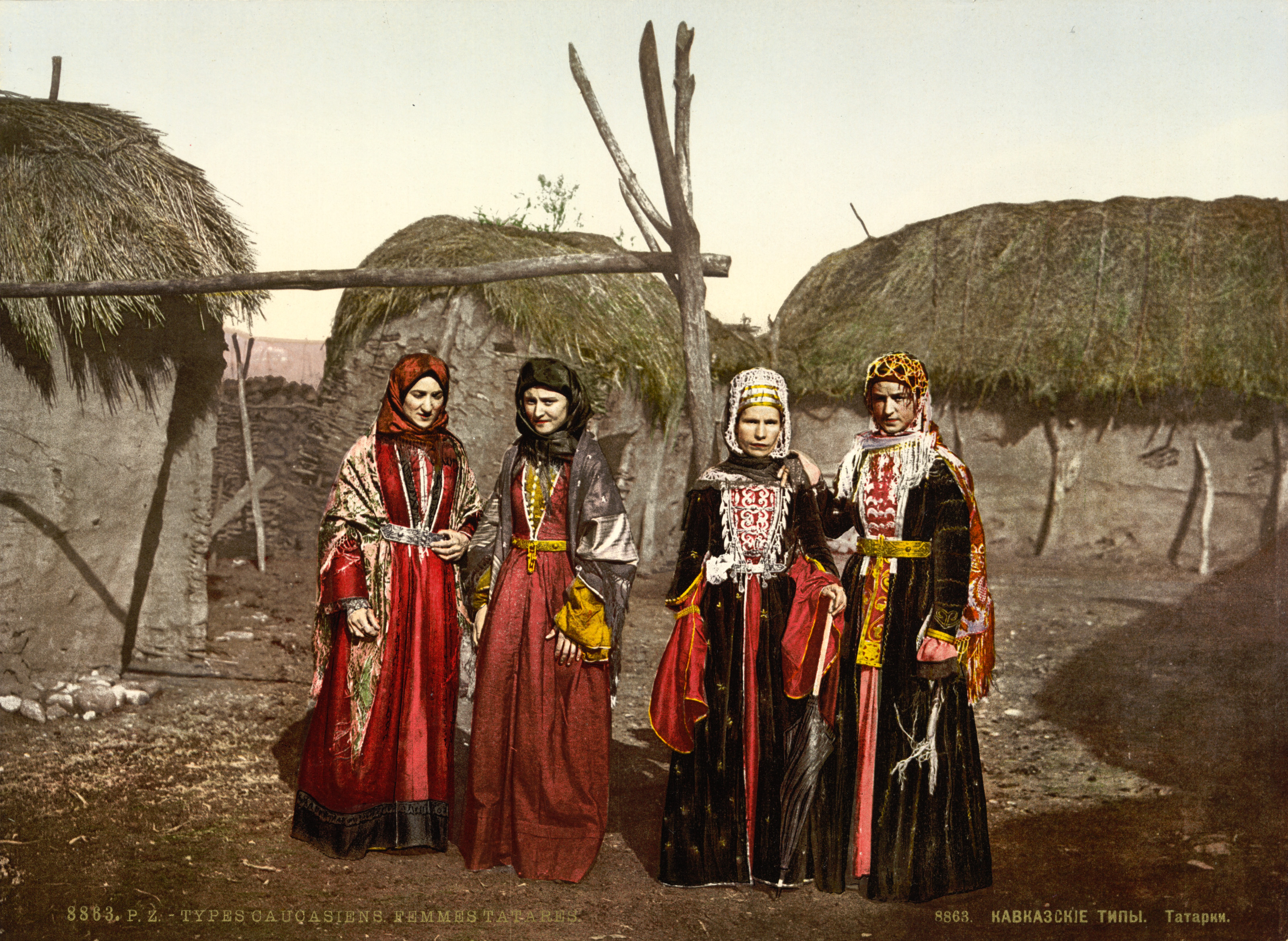 Tatar women of the Caucasus, Russian Empire